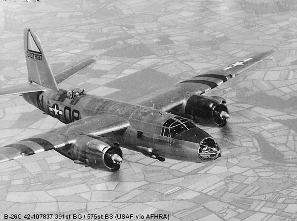 Martin B-26C-45-MO Marauder Serial 42-107837 of the 575th Bomb Squadron, 391st Bomb Group, based at RAF Matching, England.